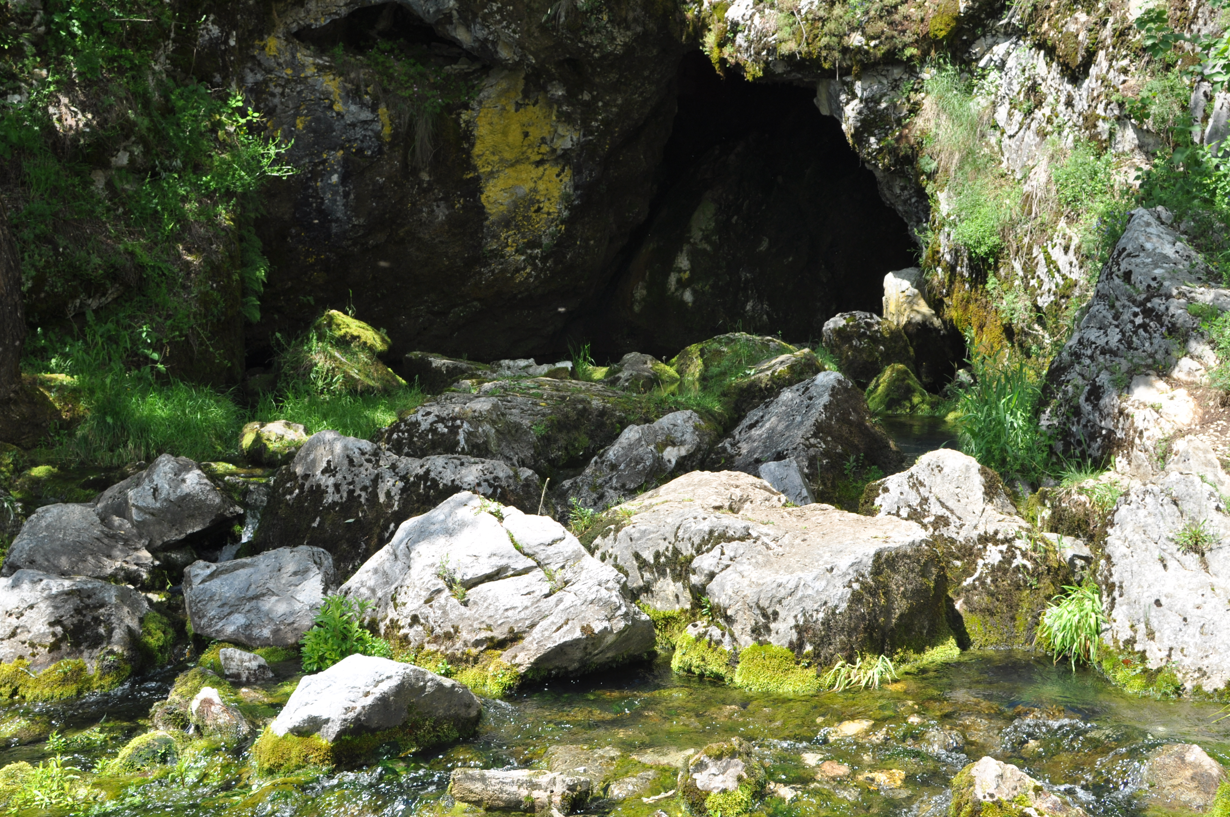 Isverna Cave, Mehedinți County, Romania